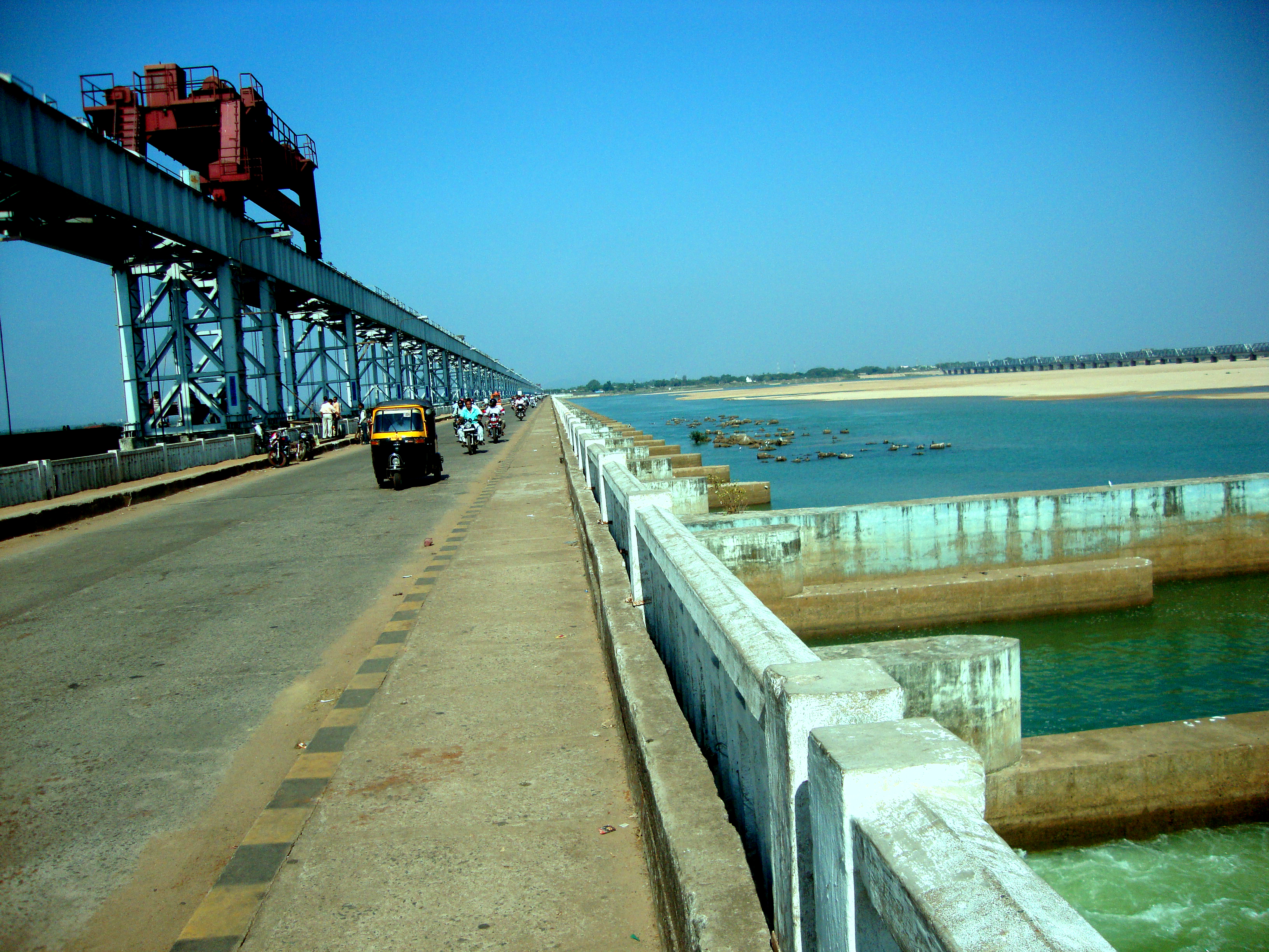 Zobra bridge in cuttack